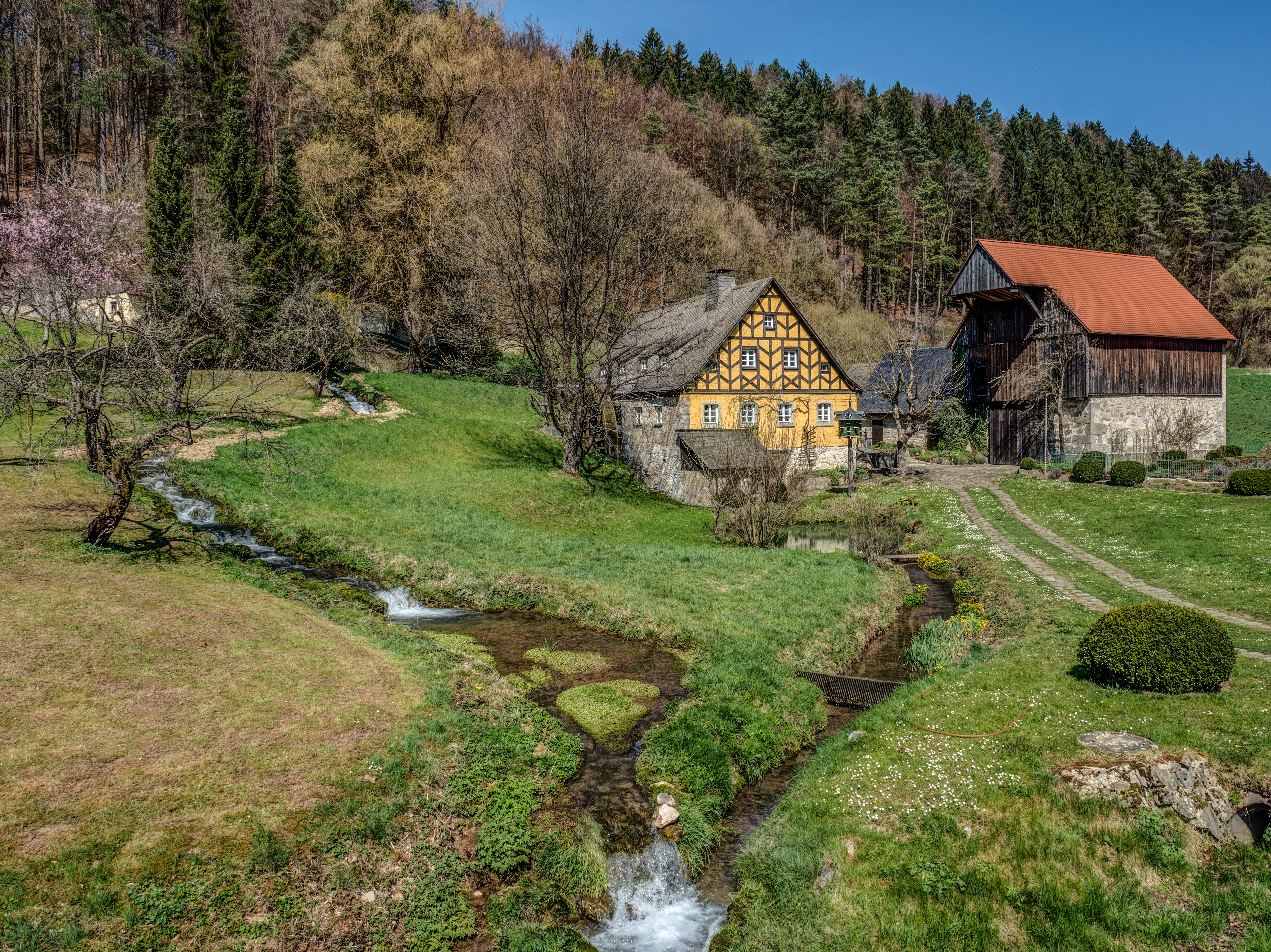 School mill in Veilbronn in Franconian SwitzerlandThis is a photograph of an architectural monument.